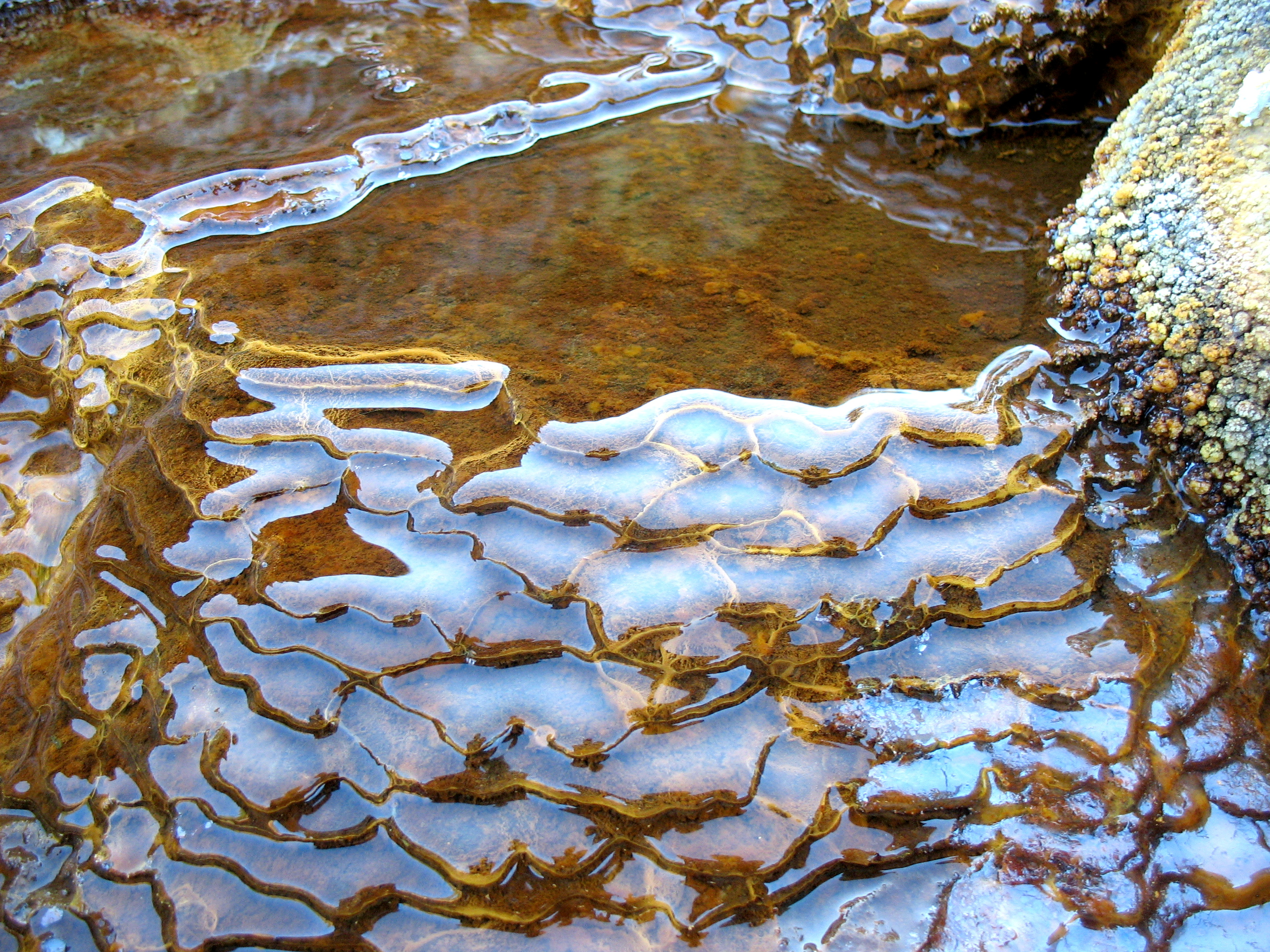 Ferric "travertine". Arroyo de la Peña de Hierro (in Spanish Iron Rock Creek), Nerva (Huelva, Spain). Mineralogy: hydroxysulphates and oxyhydroxides of iron (III) as schwertmannite, jarosite and goethite (cf. Asta, M. P.; Cama, J. y Ayora, C. (2008) "Atenuación natural de arsénico en el drenaje ácido de mina". Macla, 9: 35-36).